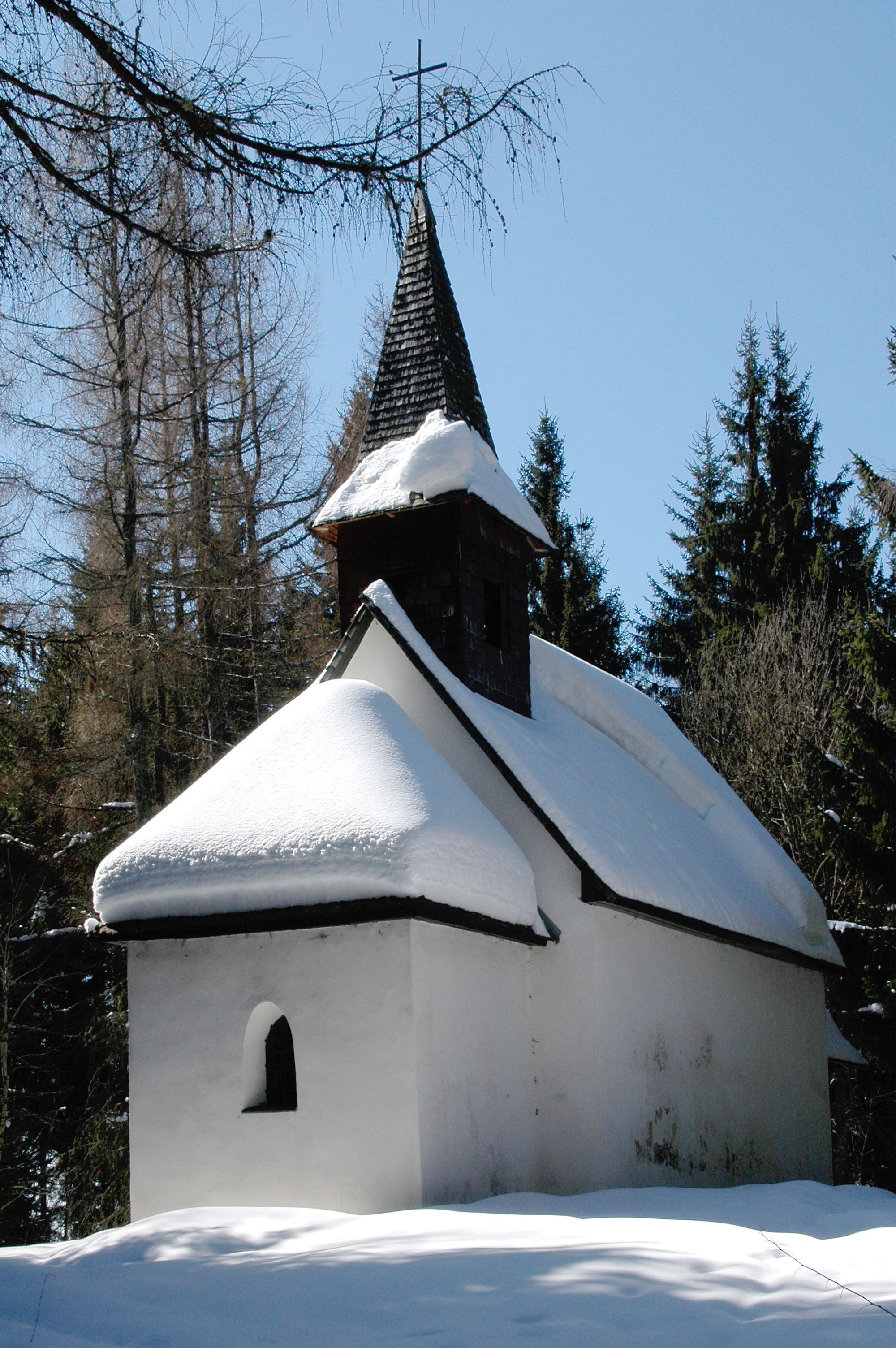 Subsidiary church Saint Vitus in Gößeberg, municipality Liebenfels, district Sankt Veit, Carinthia, Austria, EU